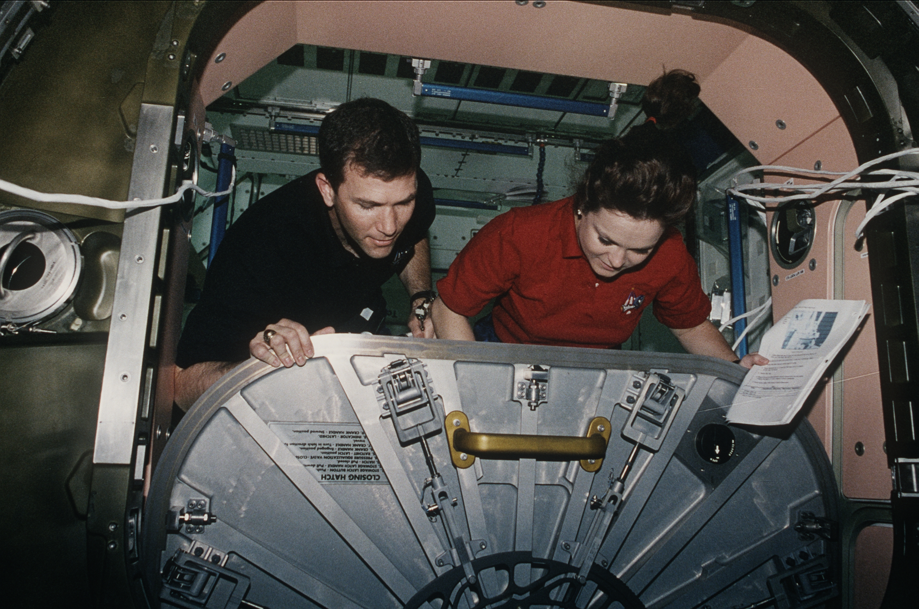 STS096-383-021 (27 May - 6 June 1999) -- Astronauts Rick D. Husband and Tamara E. Jernigan adjust the hatch for the U.S.-built Unity node. The task was part of the overall effort by the seven-member STS-96 crew to prepare the existing portion of the International Space Station (ISS).